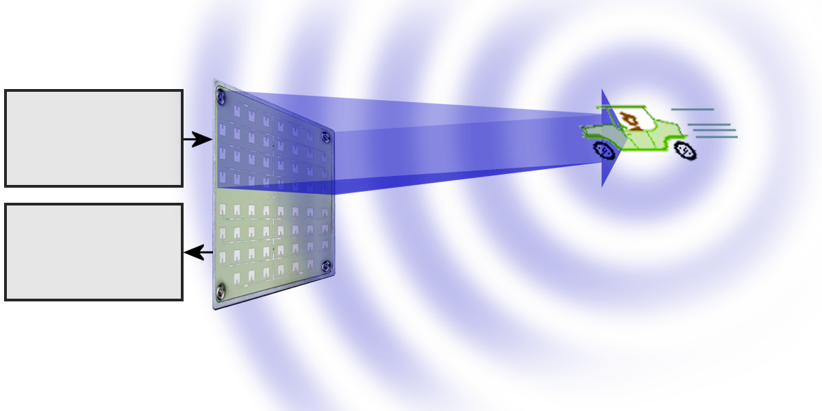 Principle of measuring of the speed using a Continuous Wave Radar (CW-Radar) (usage of the empty boxes see File talk)